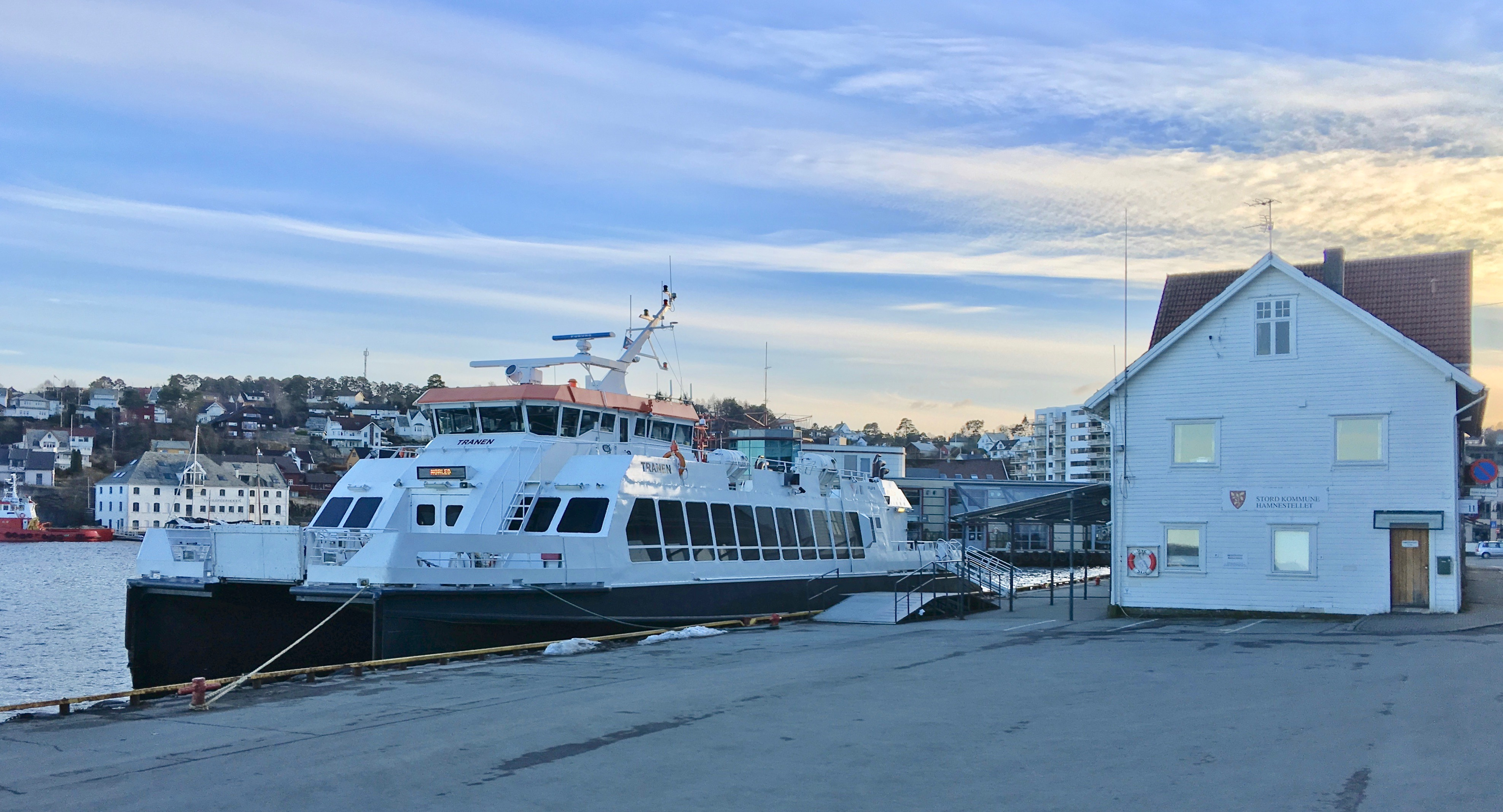 Stord harbour (Stord hamn) in Leirvik town on Stord Island, Norway, with MS "Tranen" (ship, 2006, Nordled catamaran ferry) at Nattrutekaien and "Stord kommune hamnestellet". Also Evjo, Thiisafabriken, etc.Photo Saturday evening 2018-03-10.